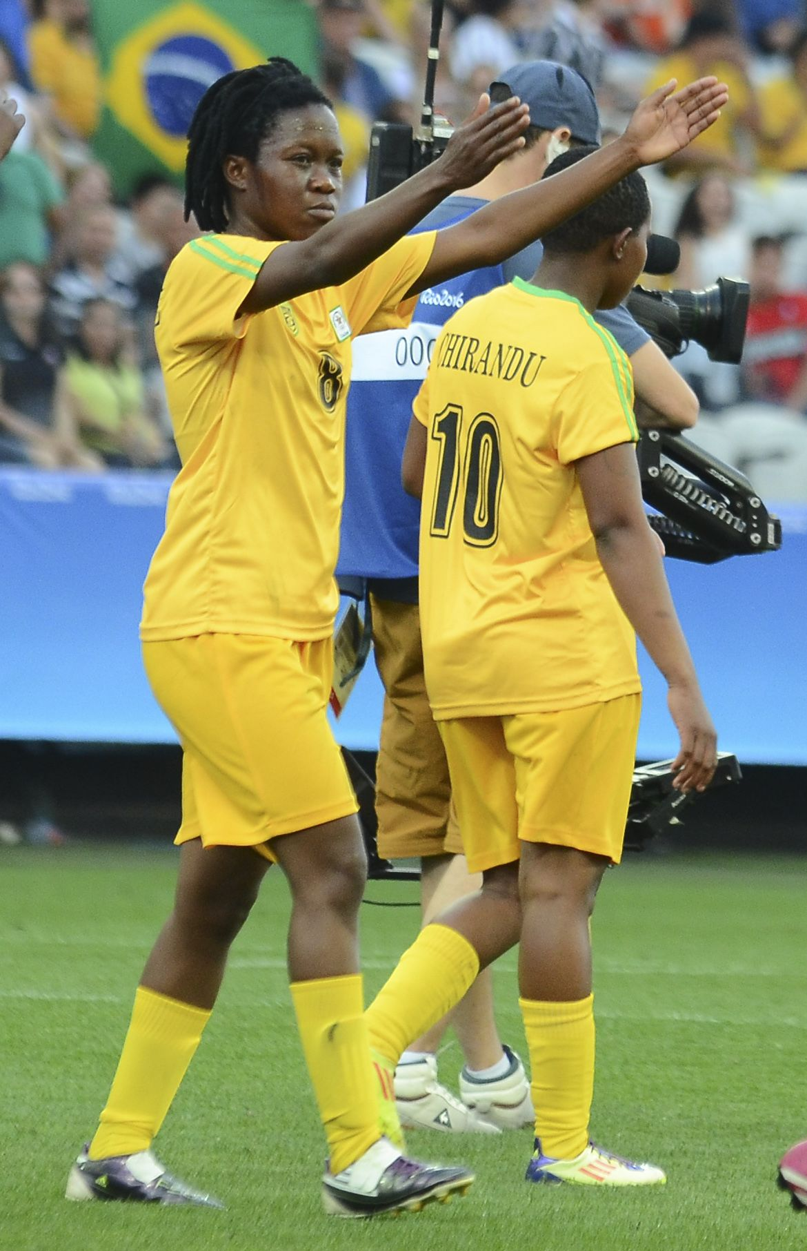 Canada wins Zimbabwe in Rio Olympics